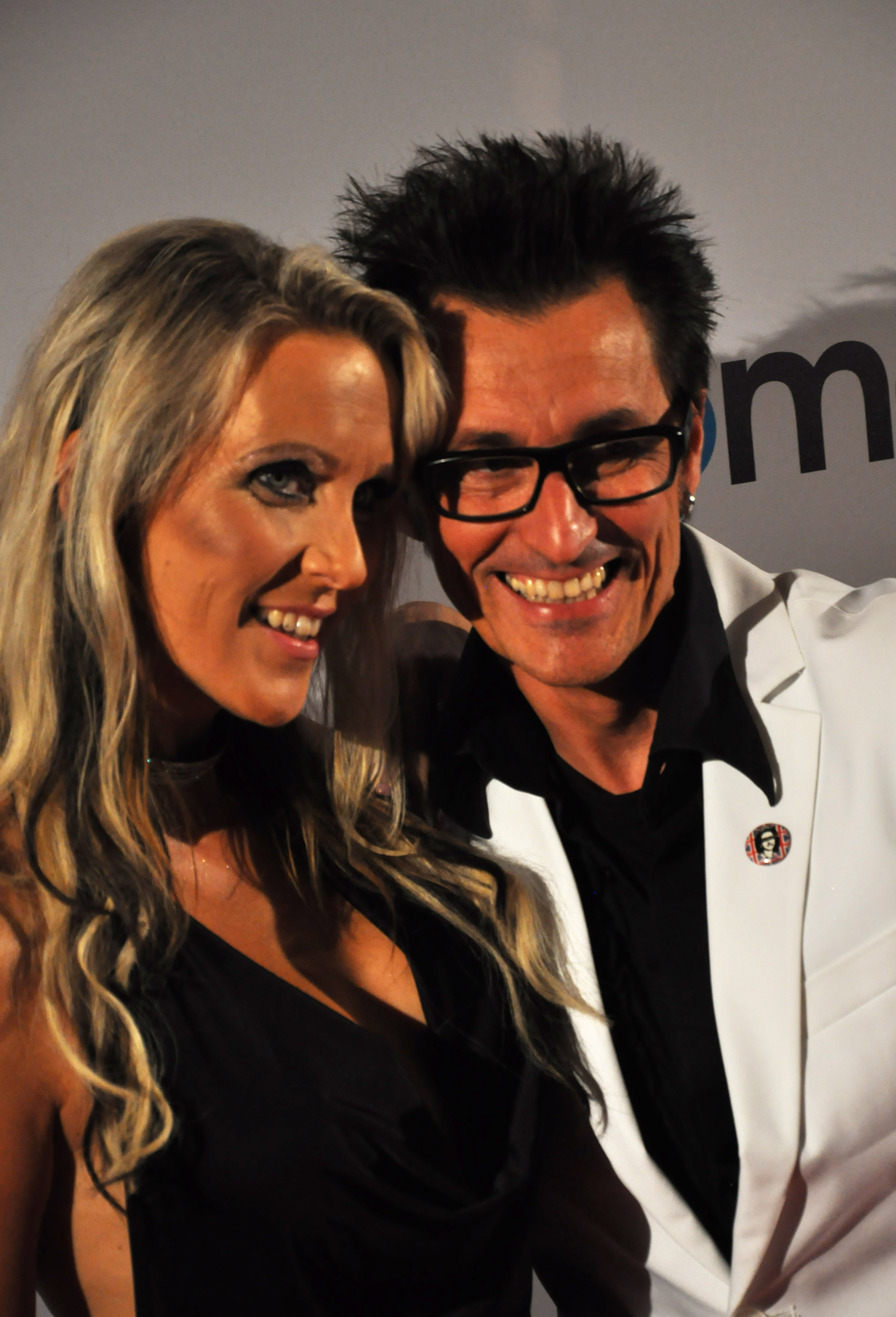 VENUS Award winner Julia Pink and Conny Dachs at the ceremony of the Venus Awards 2014, Berlin